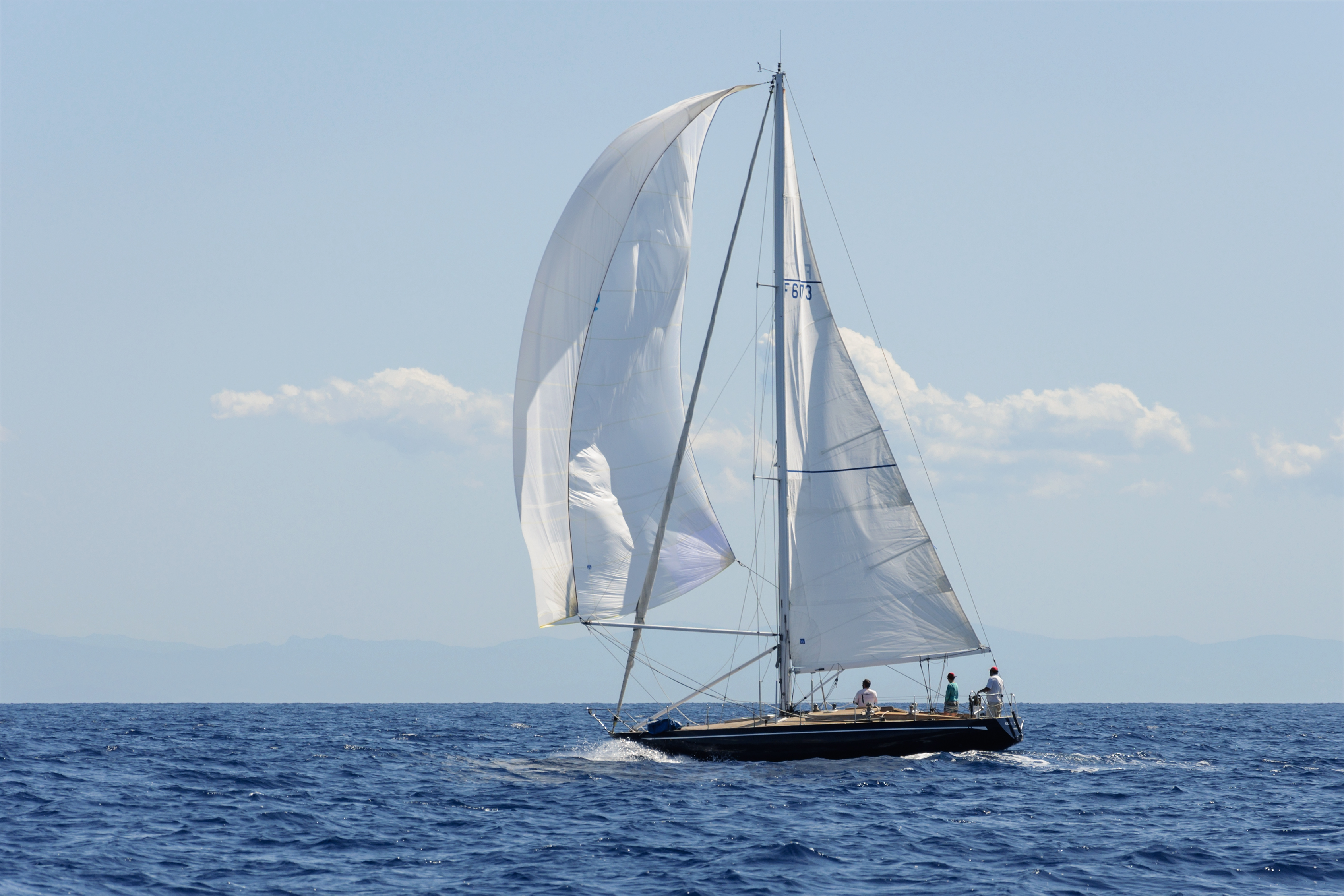 Aigue Blu[1] unfurling her spinnaker during the ‘Corsica Classic 2013’ yacht race, where she placed second in her category (Classique Marconi).